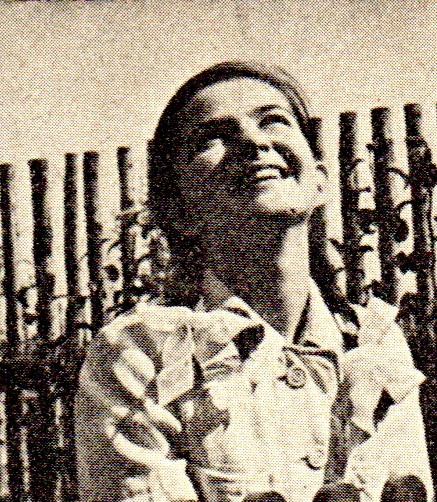 Nataša Tanská, Czech movie actress, 1942